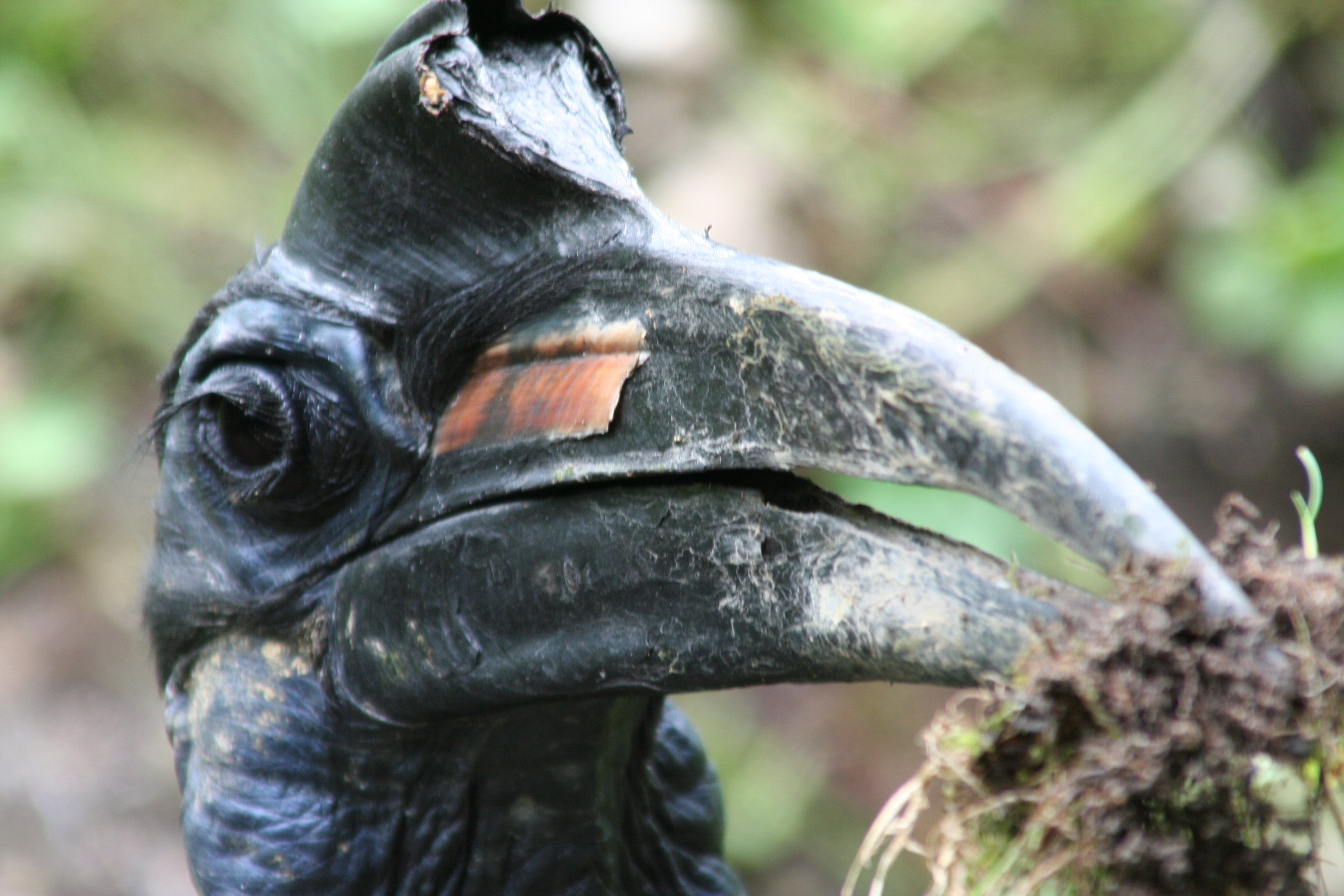 Bucorvus abyssinicus, Zoo_Schmieding